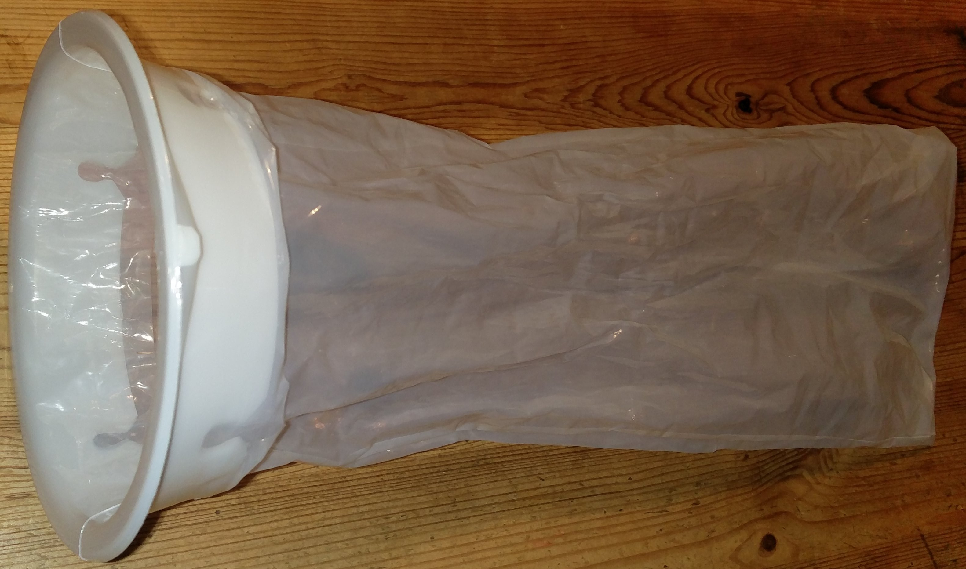 Vomiting bag typically carried by German EMS.